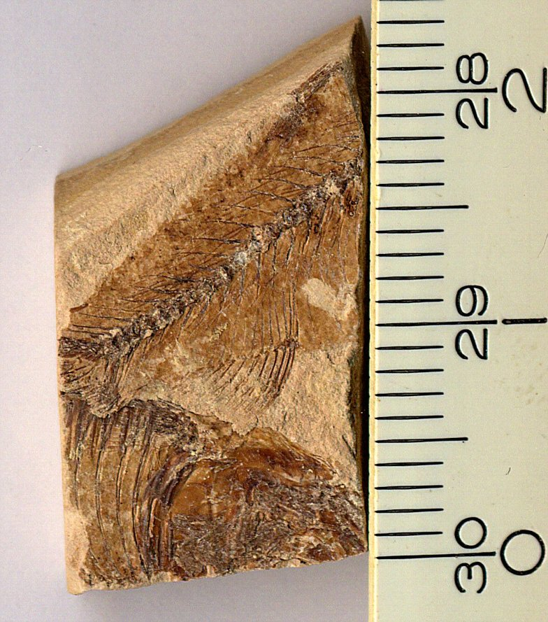 Fish fossil found in Wyoming, from the Eocene era, about 50 million years ago